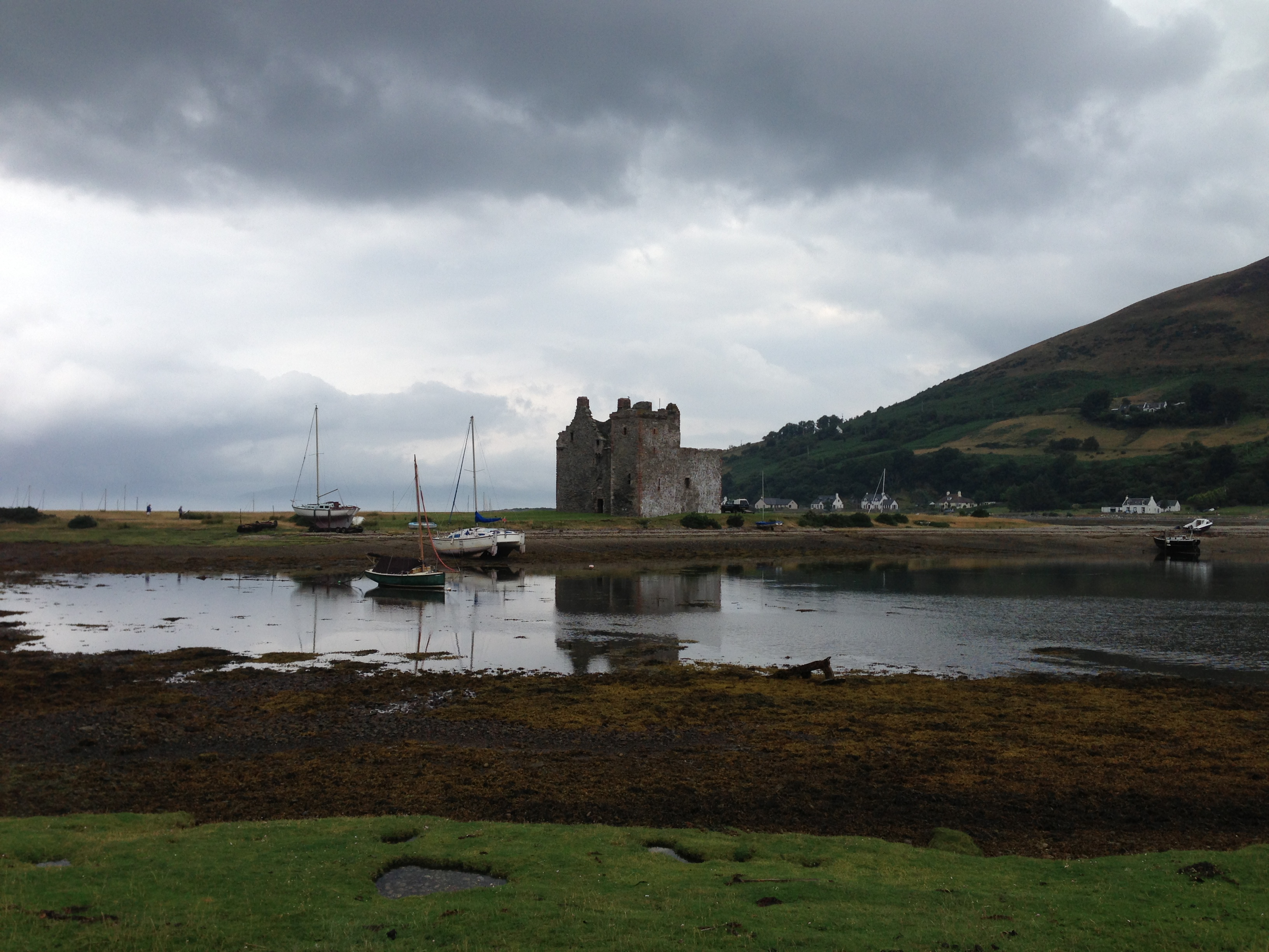 Lochranza Catsle, Isle of Arran, North Ayrshire, Scotland, United Kingdom